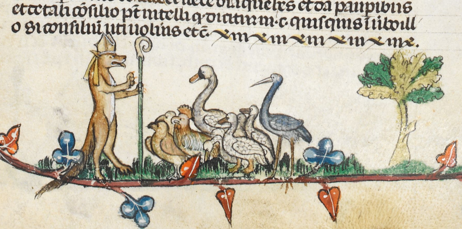 Reynard the Fox wearing a mitre preaching to the geese and other birds, France c. 1300-c 1340 from: British Library, Royal MS 10 E IV, fol. 49v